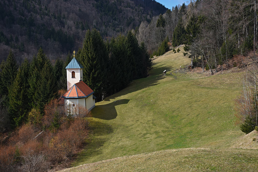 Sveti Lenart na Rebri, the church above the homonymous village.